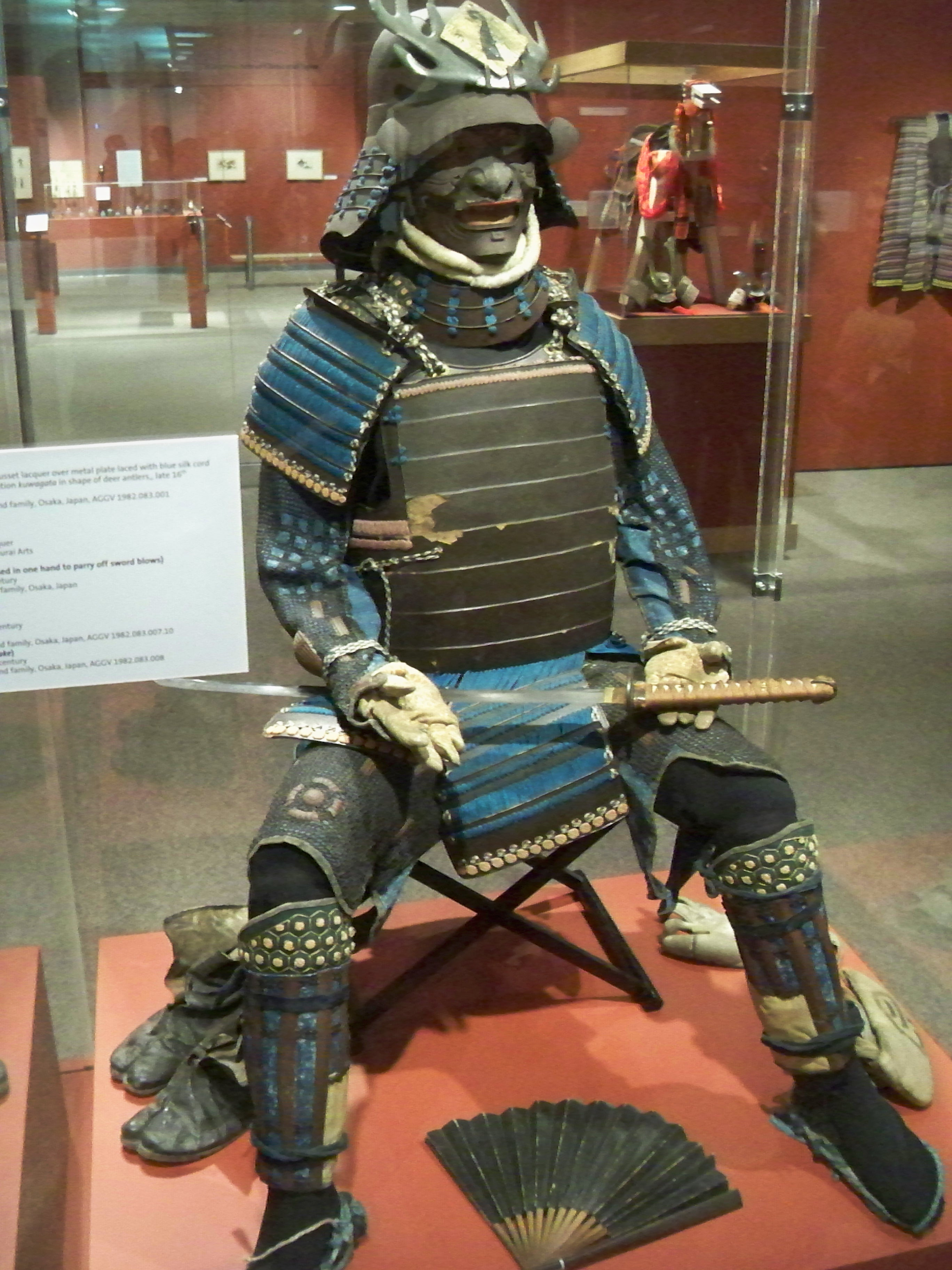 Photograph from the Return of the Samurai, an exhibit of Samurai art and artifacts held in the Art Gallery of Greater Victoria, Victoria B.C. Canada, August 6 through November 14 2010. Sponsered by Barry Till, internationally recognized Curator of Asian Arts at the AGGV, author, and art historian and by Trevor Absolon, major contributor, author, consultant, Samurai collector and specialist.